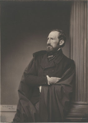 The german painter Eduard Gerhardt (1812-1888)